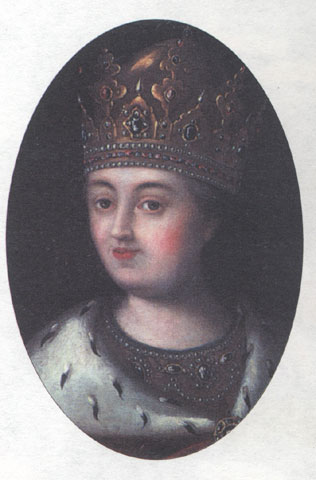 The young Sophia Alekseyevna.